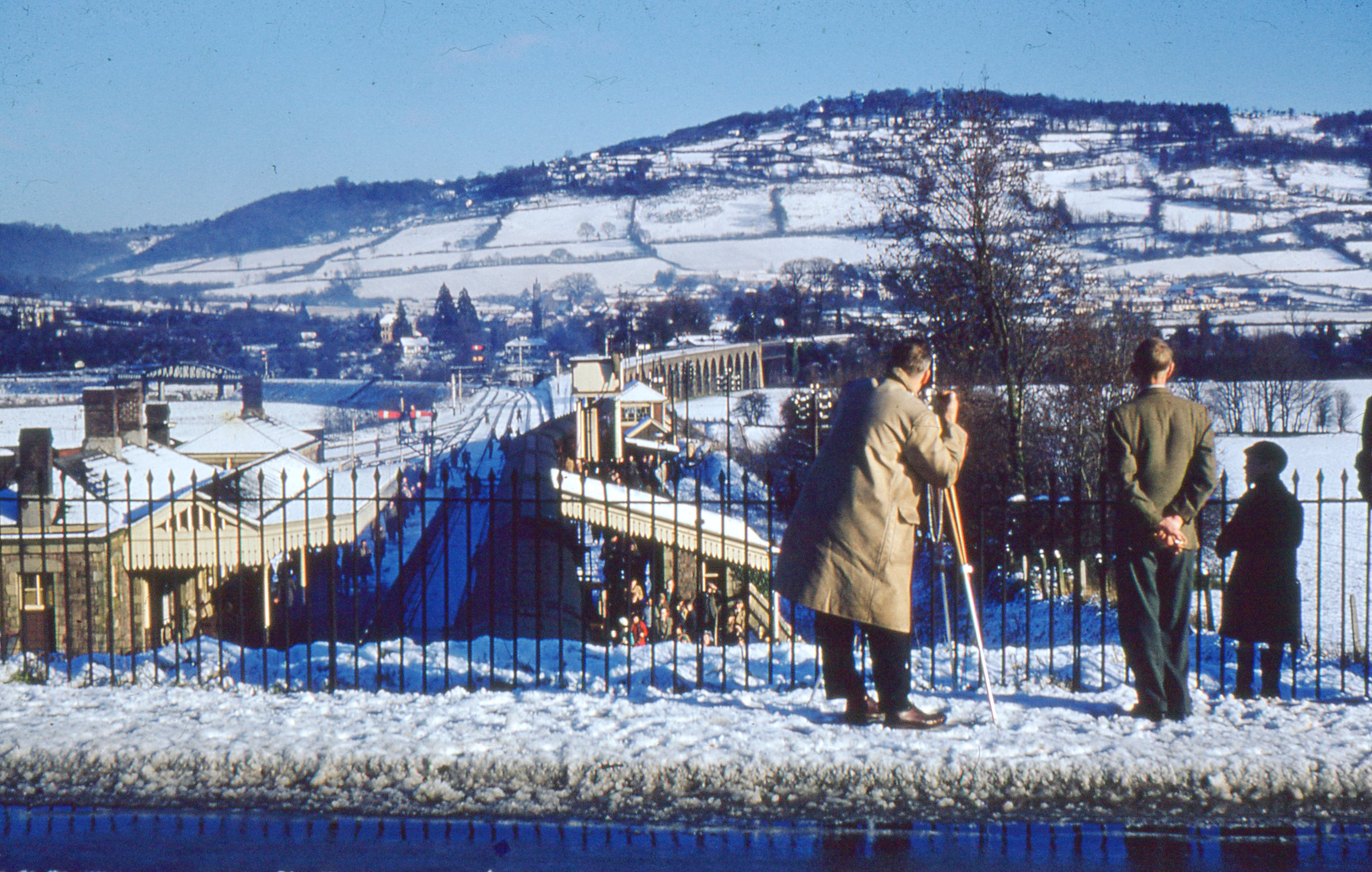 Last Passenger Train Leaving Monmouth Troy Station 1959